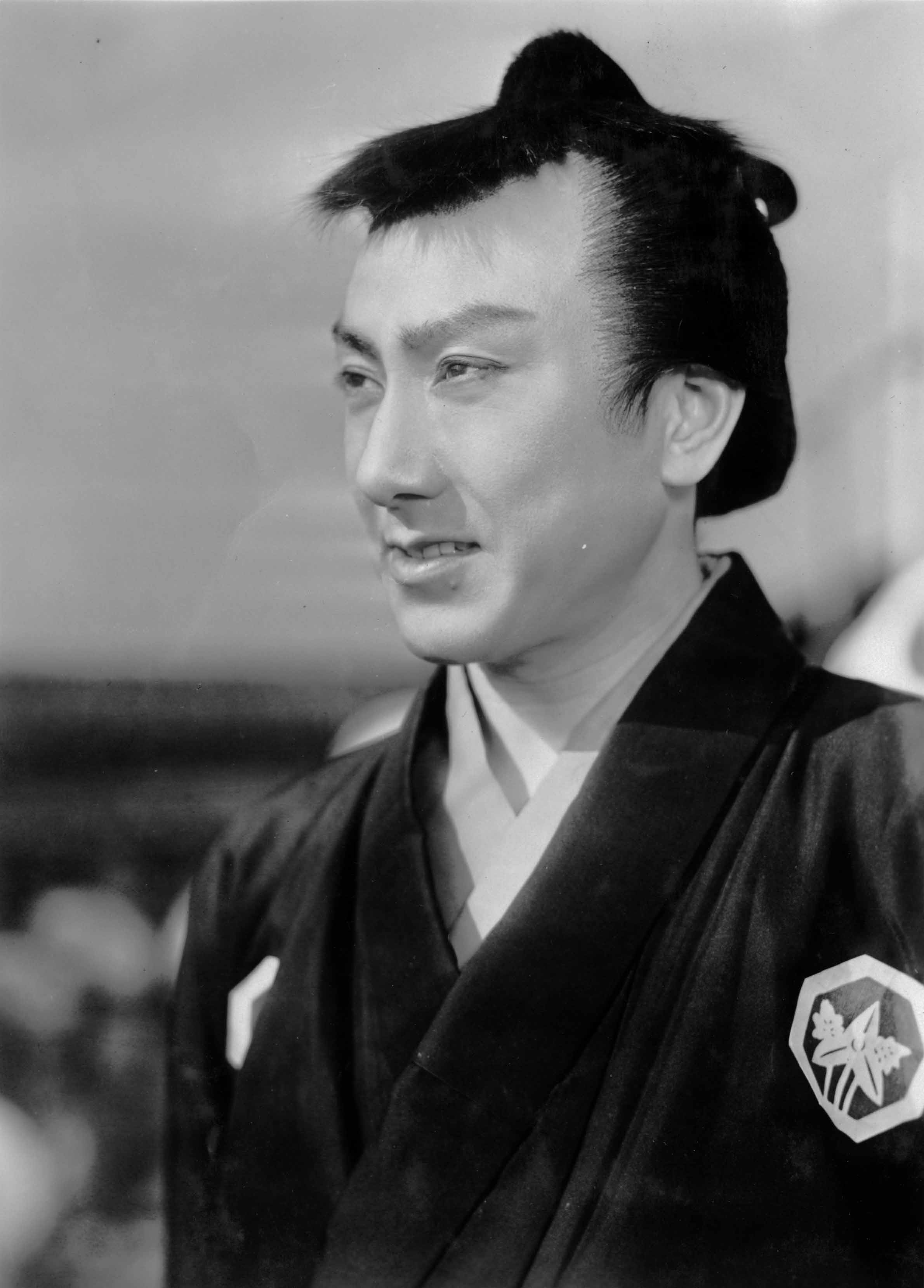 Chiezō Kataoka in Oshidori utagassen (鴛鴦歌合戦) directed by Masahiro Makino - 1939